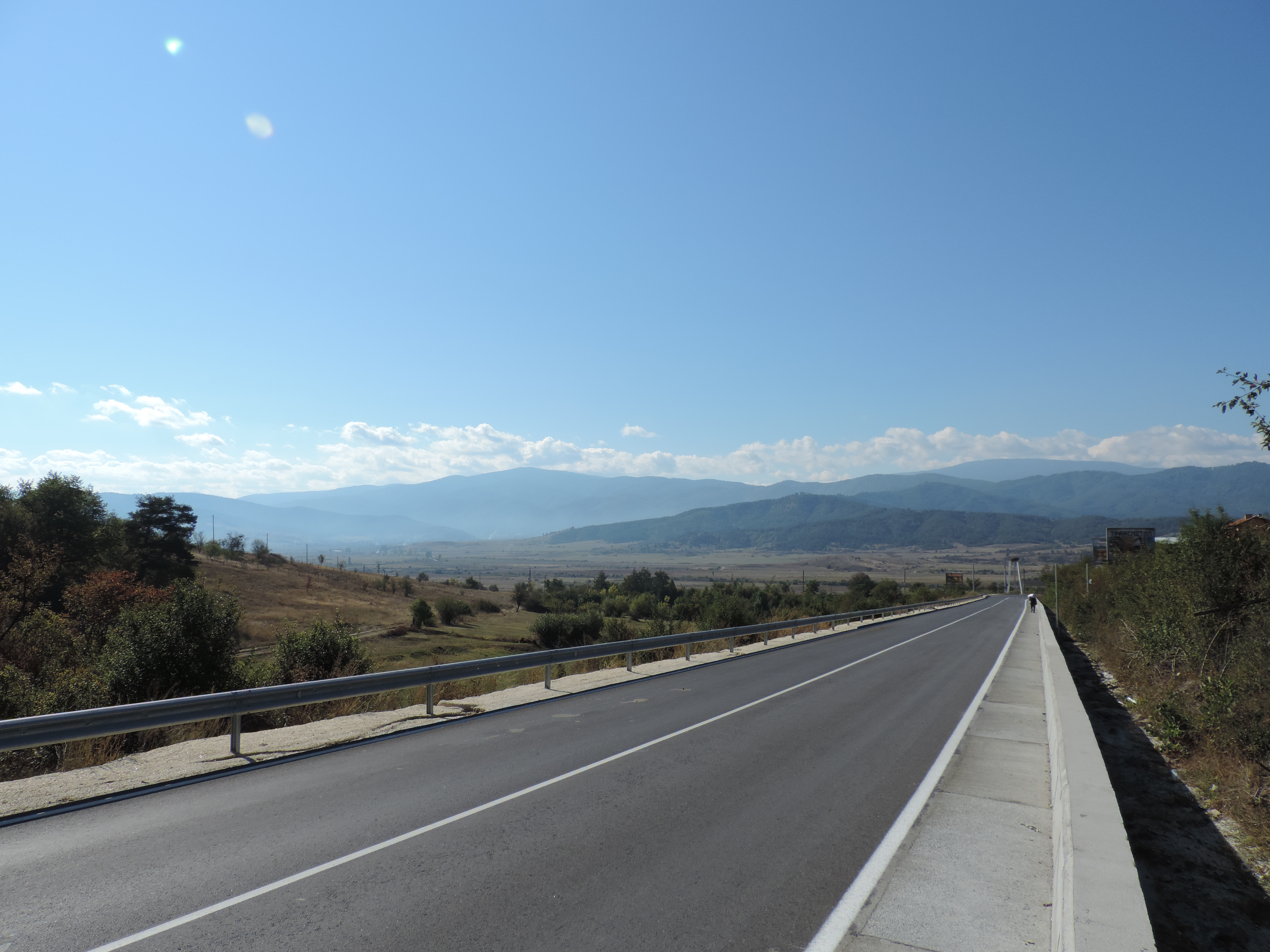 Road 84, Bulgaria